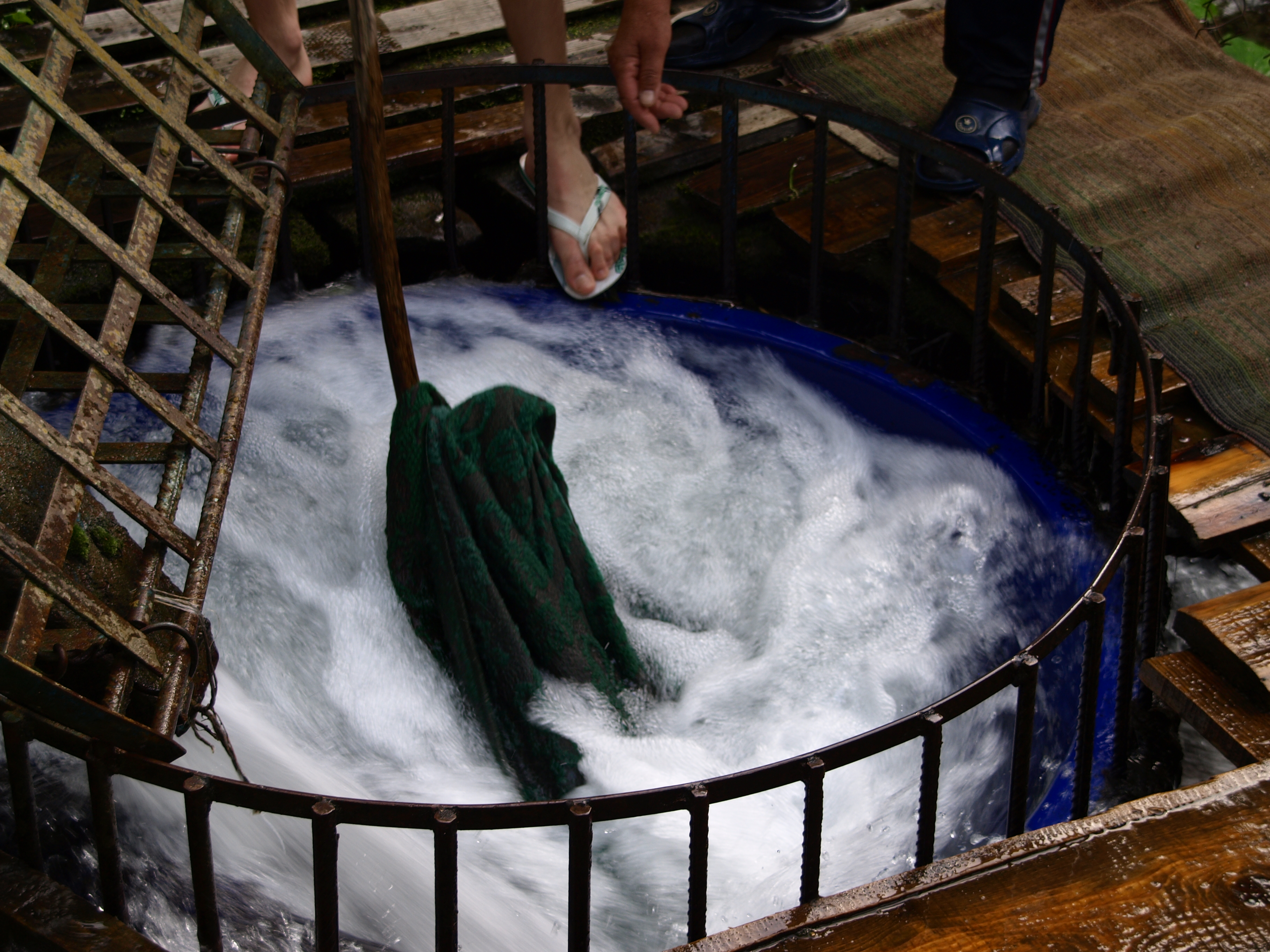 thuckers fulling at Goritsa Waterfall, Rila National Park